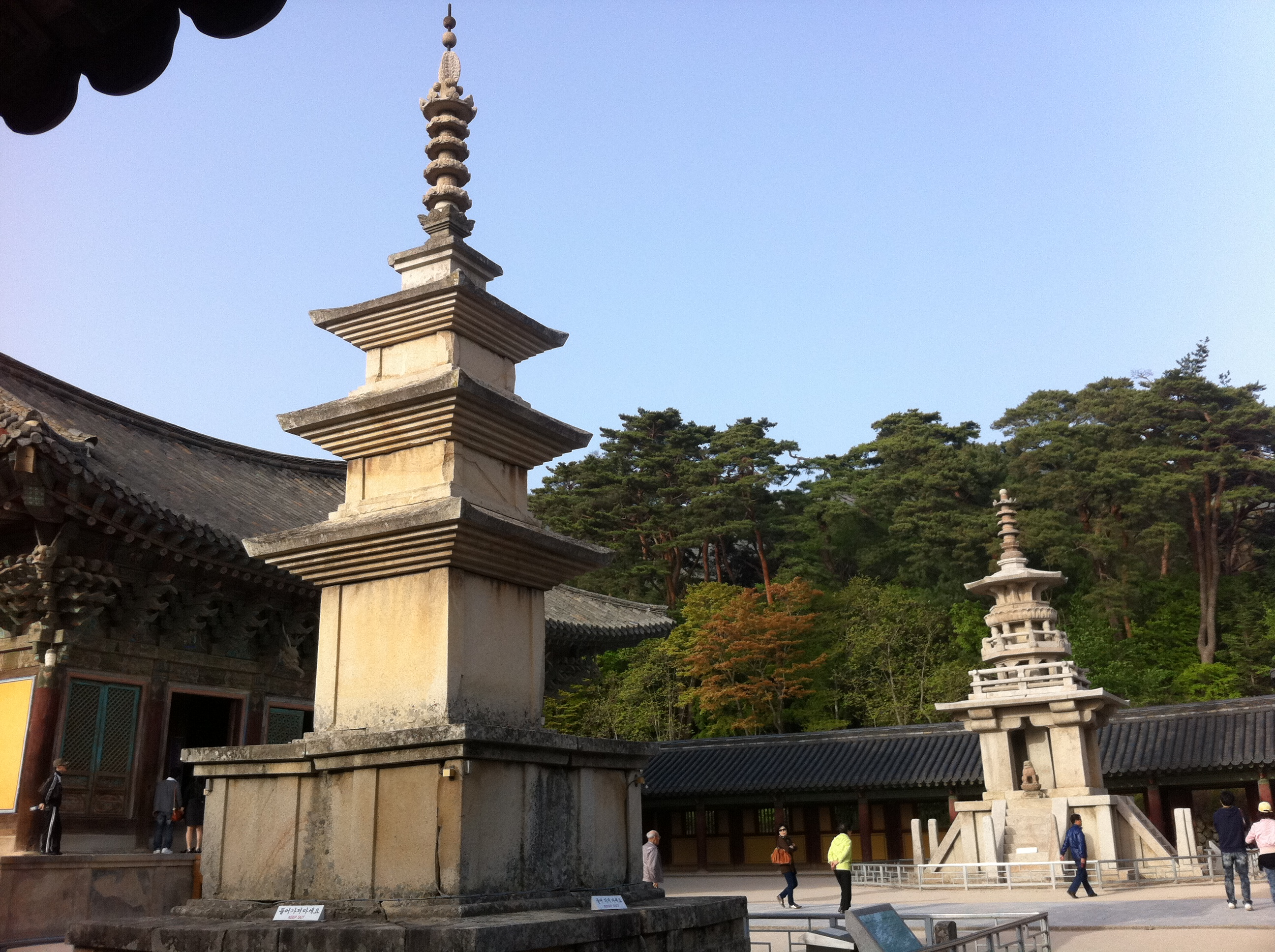 Bulguksa tap